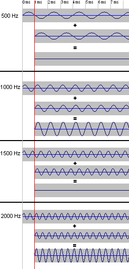 Effect of a 1 ms comb filter on tones of 500, 1000, 1500 and 2000 Hz.